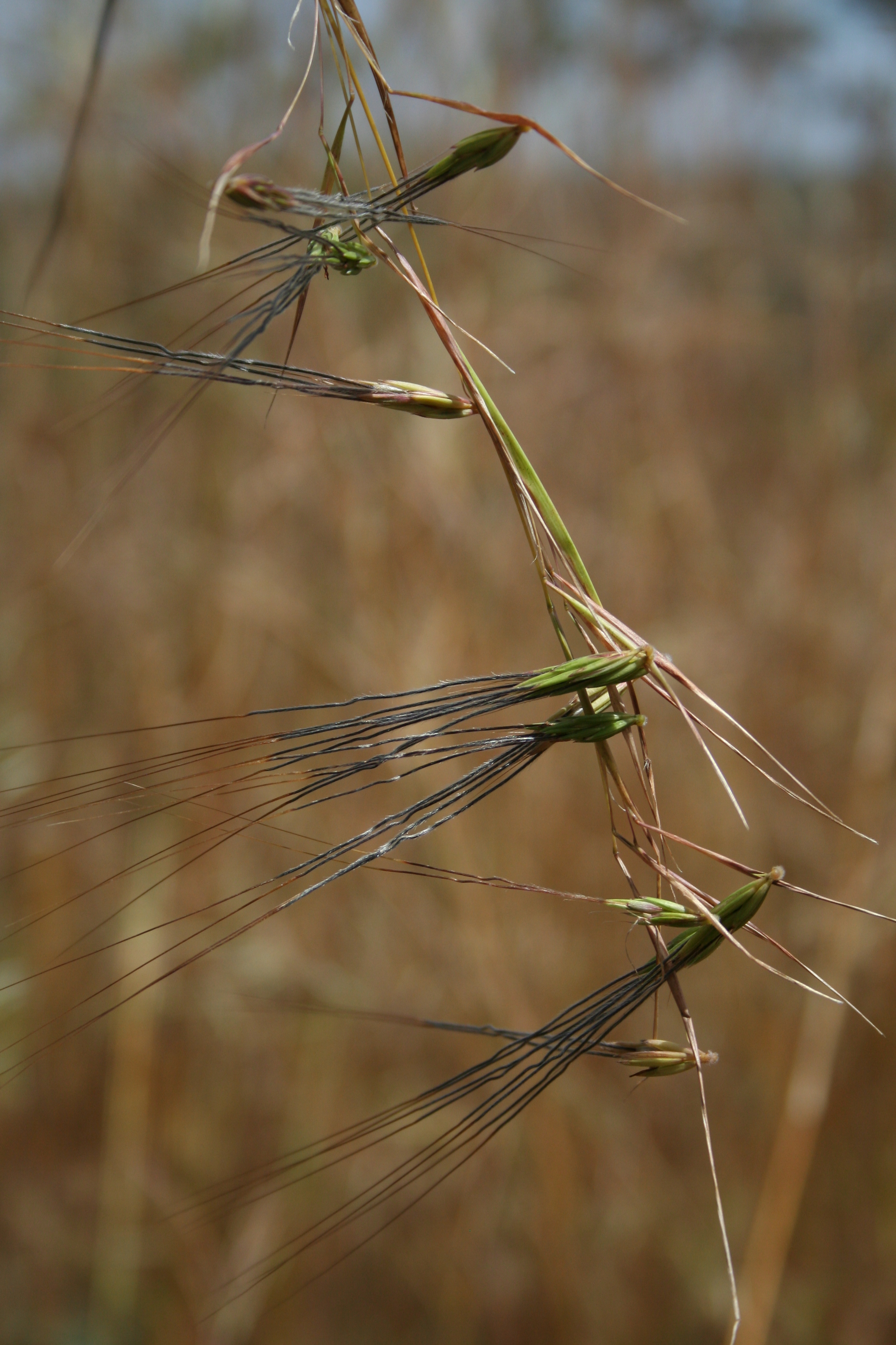 flowering Hyparrhenia involucrata in SE Burkina Faso